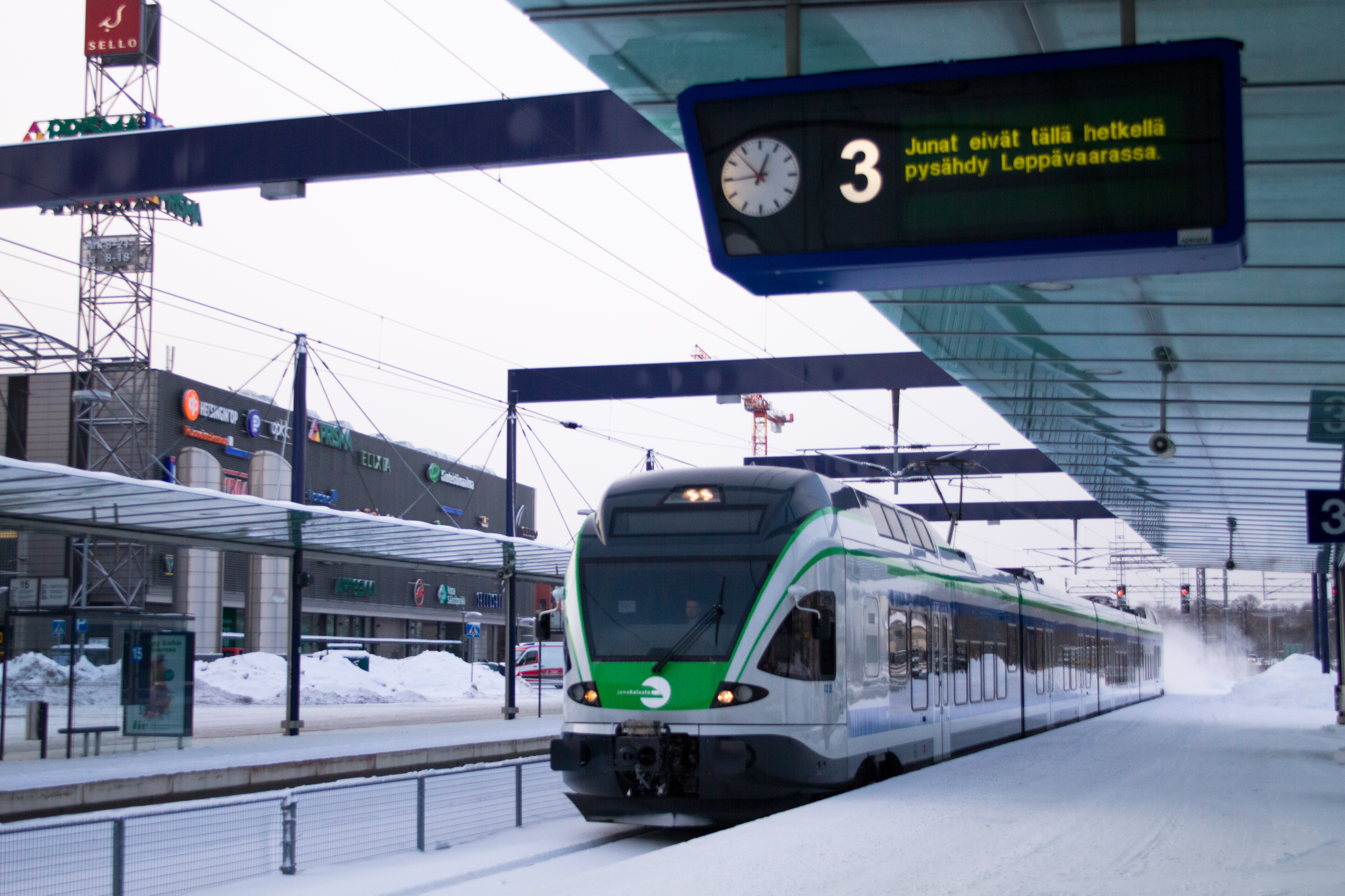 Sm5 train passing Leppävaara station in Espoo, Finland. Trains didn't stop at the station because of the Sello mall shooting.